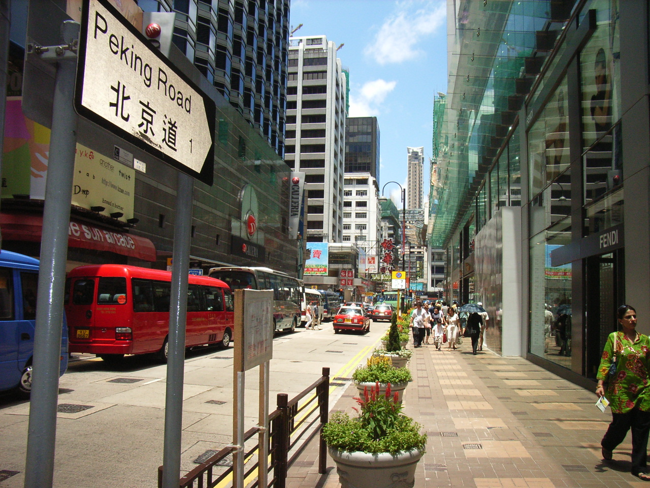 北京道 (英文: Peking Road) is a road in Tsim Sha Tsui, Kowloon by TonySKTO